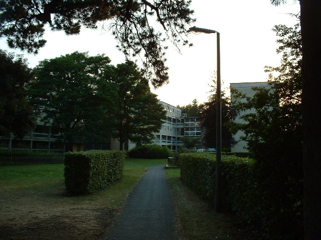 1960s Walk Up Flats, Townhill Park. 1960s built Walk-Up flats off the Townhill Way/Westend Road roundabout.